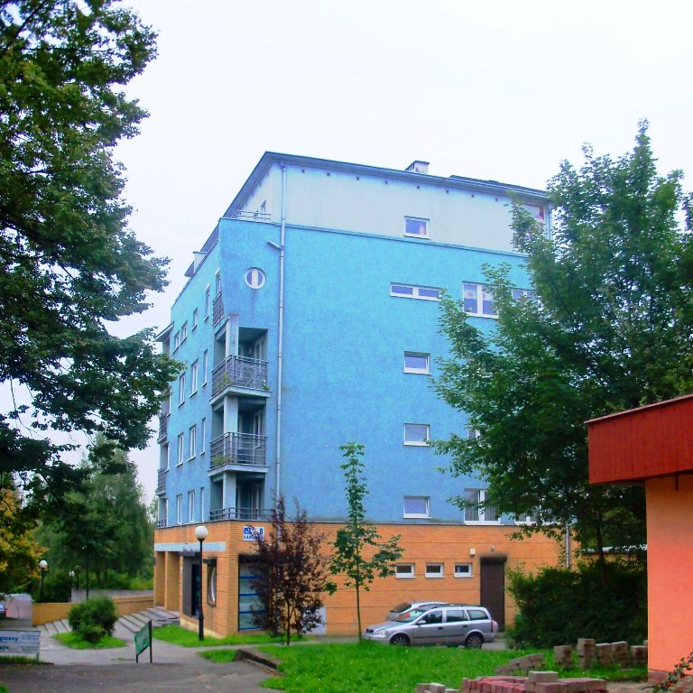 Łabędzia Street in Katowice